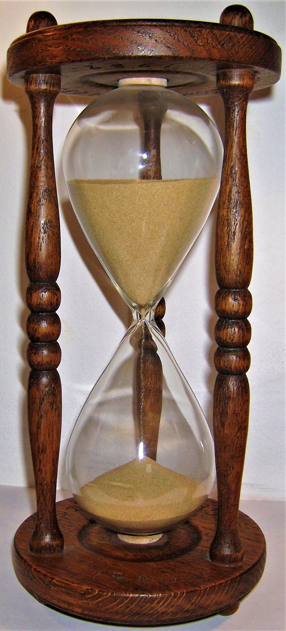 Wooden hourglass. Total height:25 cm. Wooden disk diameter: 11.5 cm. Running time of the hourglass: 1 hour. Post processing of the image: removed two spots of reflected light on the glass. Three such spots remain. Hourglass in other languages: 'timglas' (Swedish), 'sanduhr' (German), 'sablier' (French), 'reloj de arena' (Spanish), 'zandloper' (Dutch), 'klepsydra' (Polish), 'přesýpací hodiny' (Czech), 'ampulheta' (Portuguese).